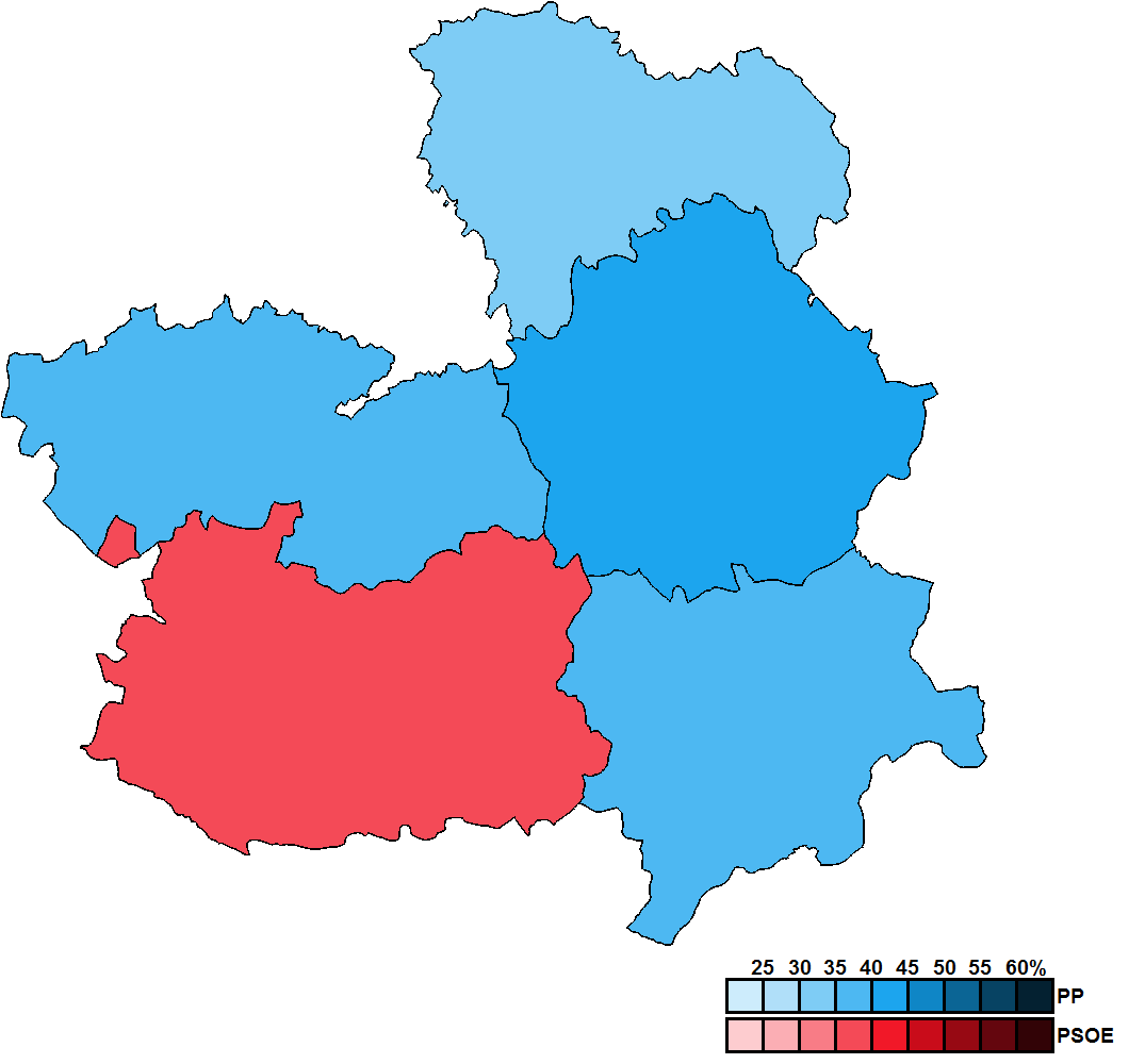 Provincial results for the 2015 Castilian-Manchegan regional election.